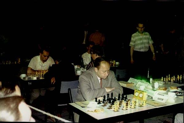 Lajos Portisch (left), László Szabó and Wolfgang Unzicker (standing), European Team Championship, Oberhausen 1961, Photographer Gerhard Hund.